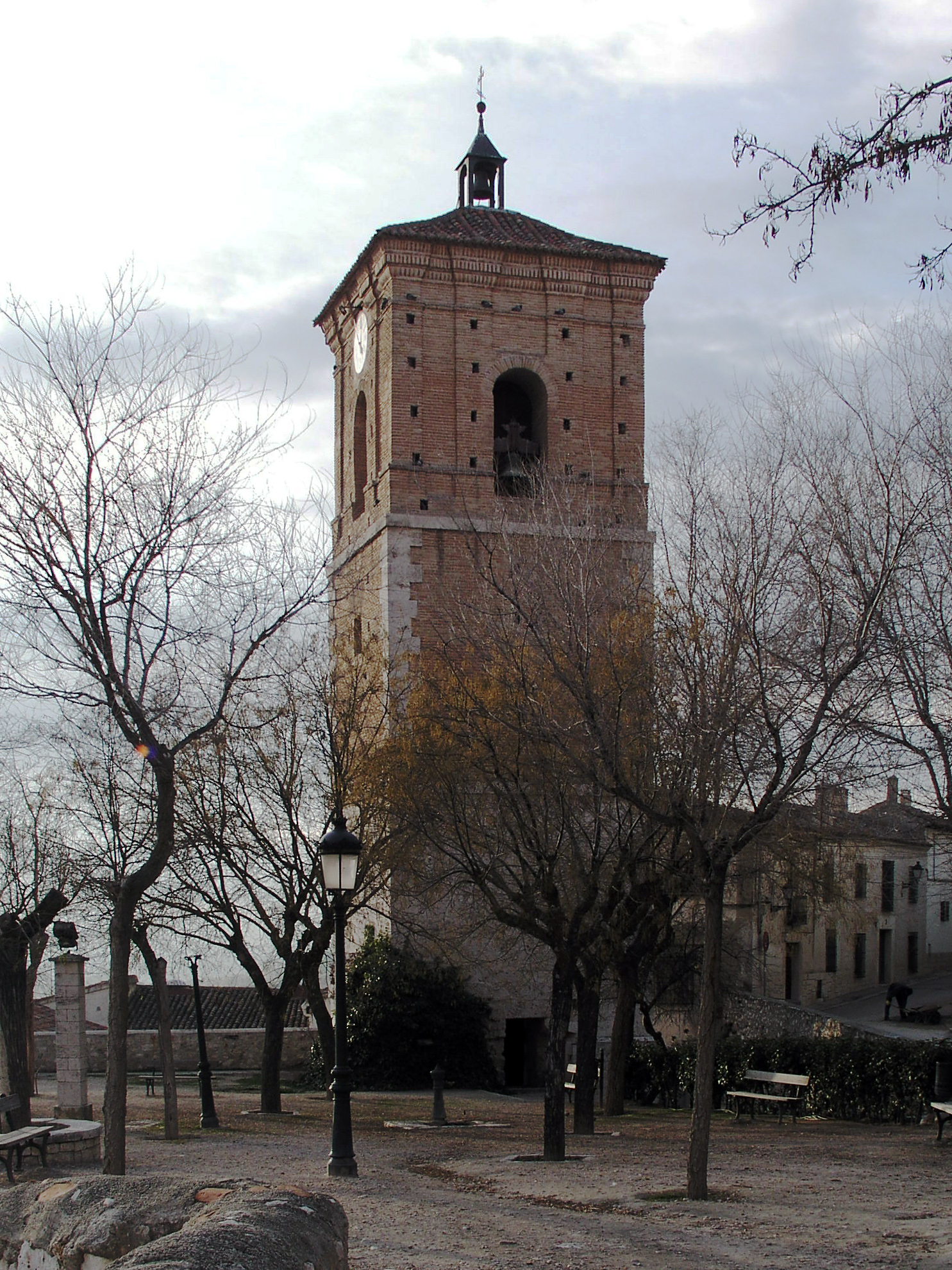 Chinchon, Spain. "The church tower without church."